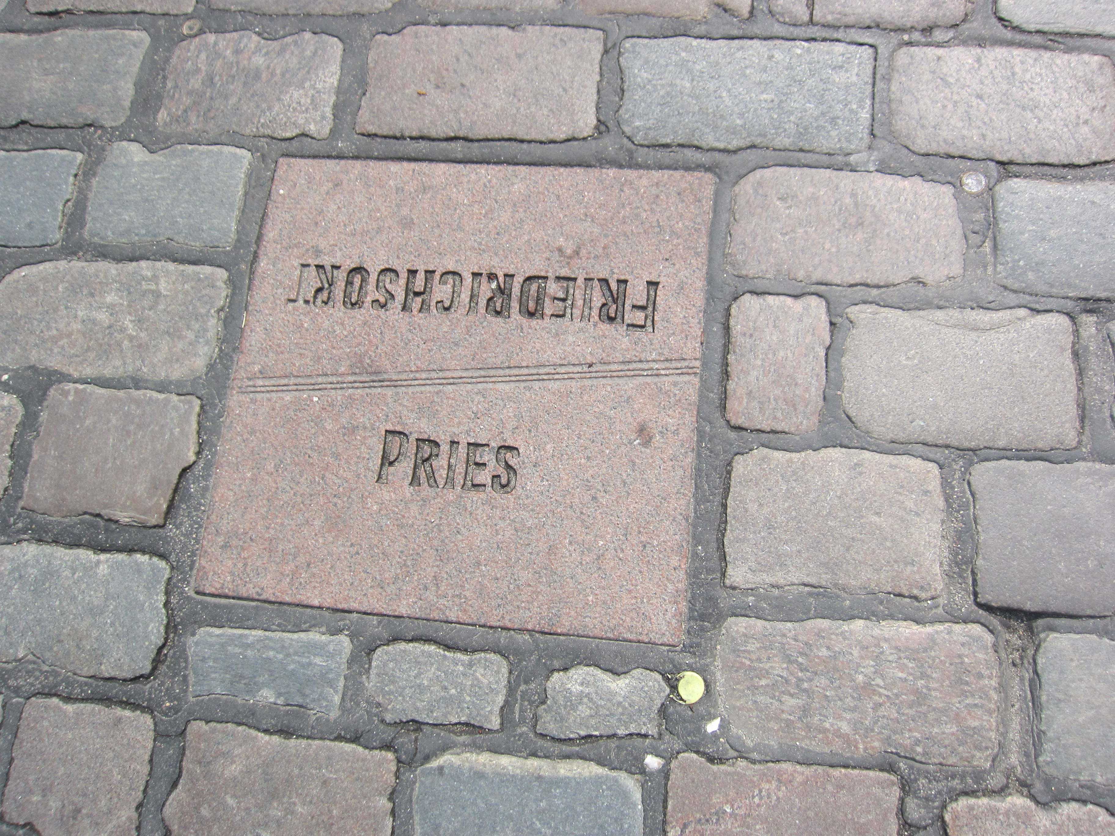 Border of Kiel-Pries and Kiel-Friedrichsort